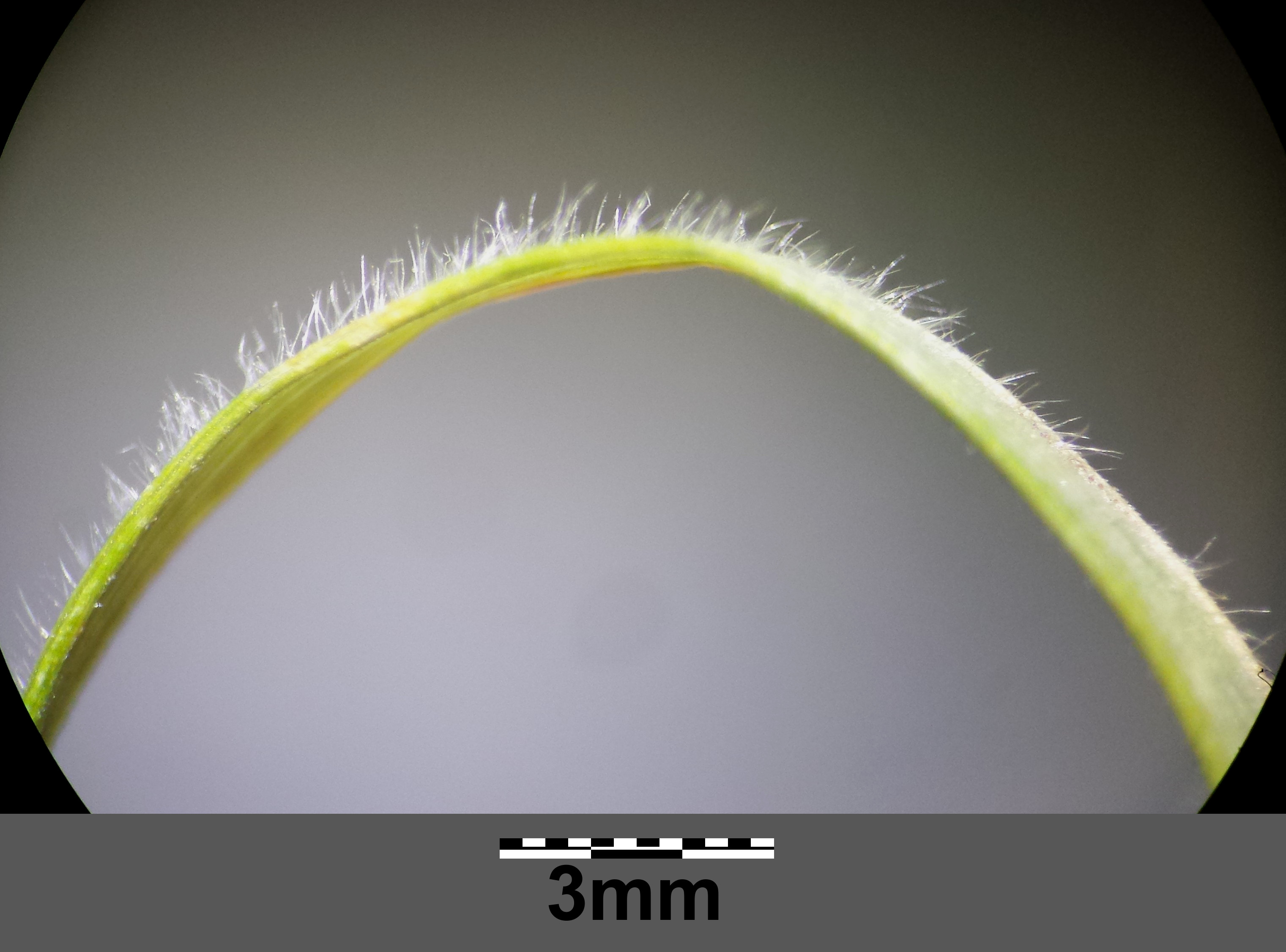 Leaf, upper side with hairs Taxonym: Agropyron pectiniforme ss Fischer et al. EfÖLS 2008 ISBN 978-3-85474-187-9 Location: Neue Donau, district Korneuburg, Lower Austria - ca. 160 m a.s.l. Habitat: dry slope